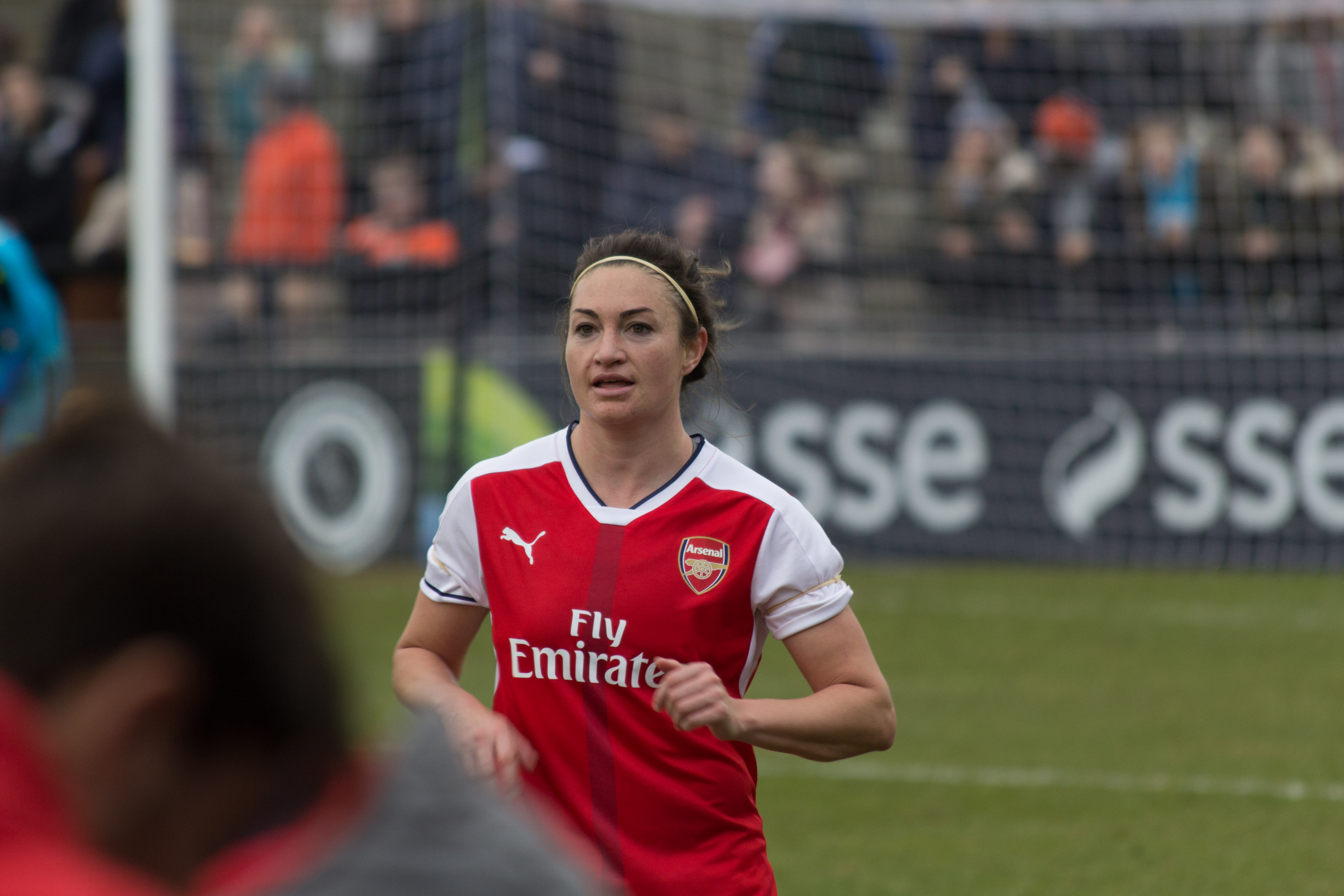 Arsenal LFC (Red) v Kelly Smith All-Stars XI (Yellow), 19 February 2017 – second half